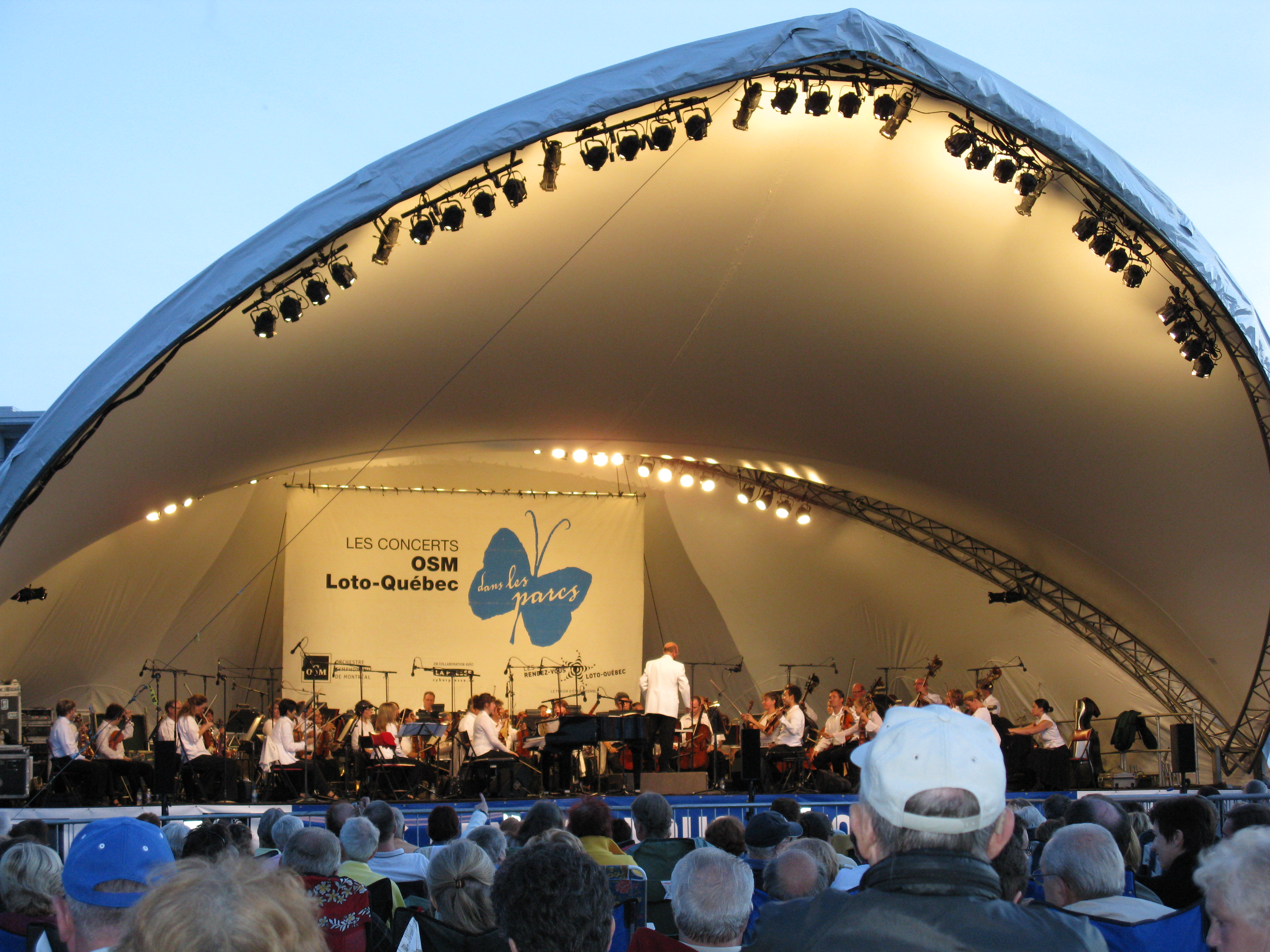 The Montreal Symphony Orchestra playing in the borough of Pierrefonds-Roxboro with conductor Jean-François Rivest.